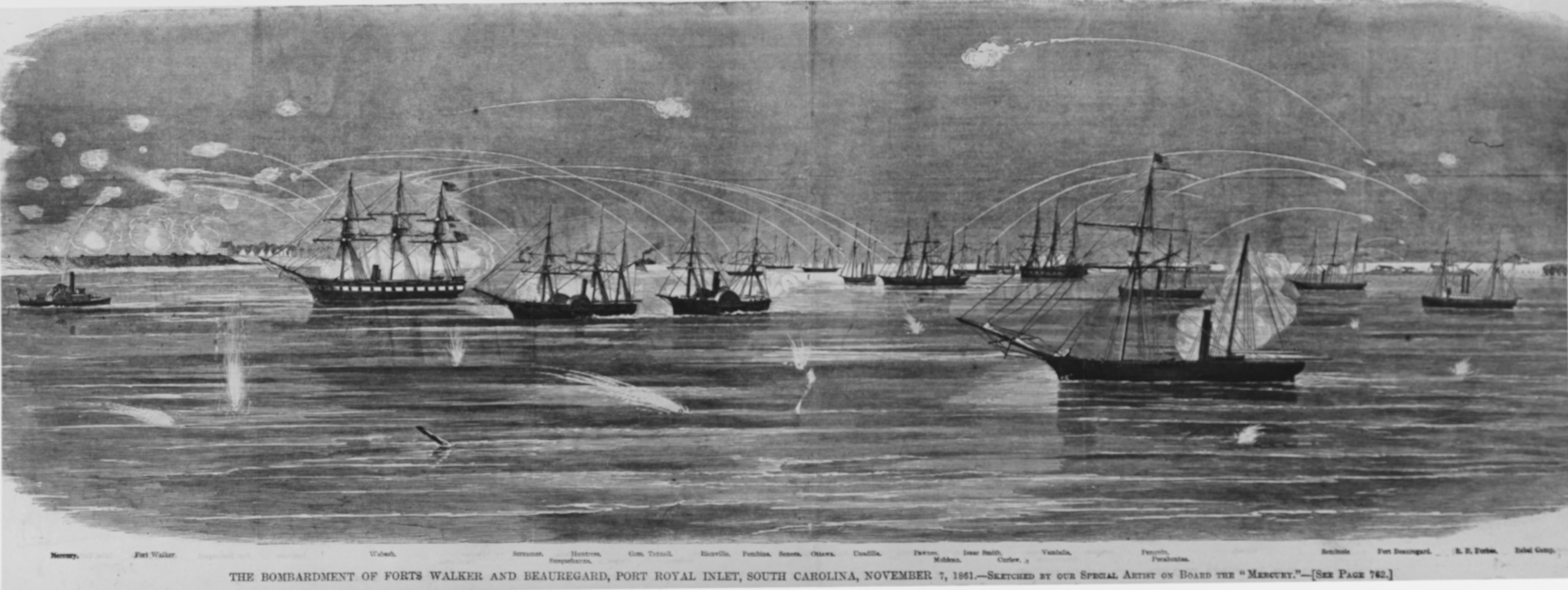 Bombardment and Capture of Port Royal, South Carolina, 7 November 1861 Engraving published in "Harper's Weekly", July-December 1861 volume, pages 760-761. It depicts Federal warships, under Flag Officer Samuel F. DuPont, USN, bombarding Fort Beauregard (at right) and Fort Walker (at left). The Confederate squadron commanded by Commodore Josiah Tattnall is in the left center distance. Subjects identified below the image bottom are (from left): tug Mercury, Fort Walker, USS Wabash (DuPont's flagship), Screamer (?), USS Susquehanna, USS Huntsville, Commo. Tattnall, USS Bienville, USS Pembina, USS Seneca, USS Ottawa, USS Unadilla, USS Pawnee, USS Mohican, USS Isaac Smith, USS Curlew, USS Vandalia, USS Penguin, USS Pocahontas, USS Seminole, Fort Beauregard, USS R. B. Forbes and "Rebel Camp".